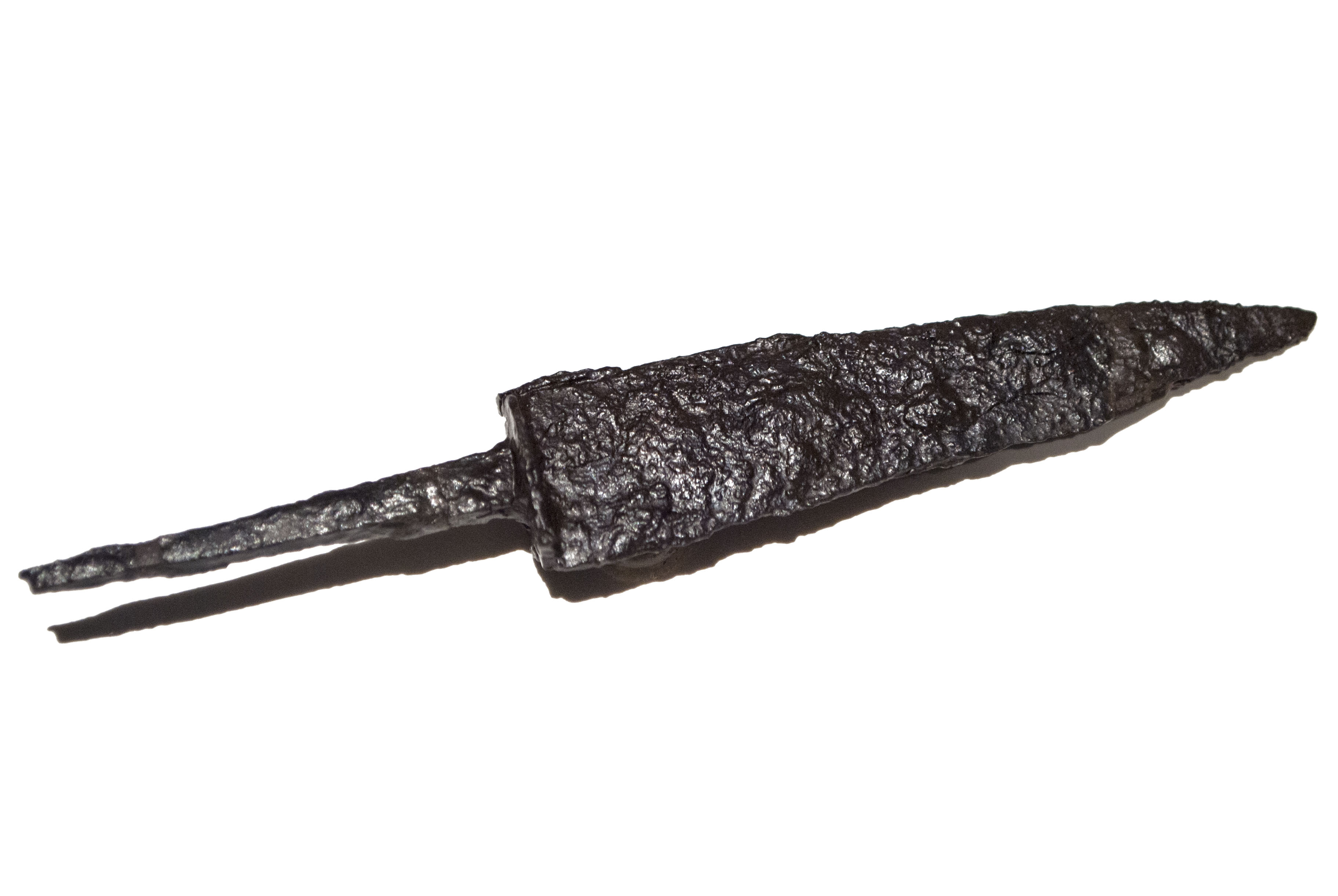 Knife, 1-3 century